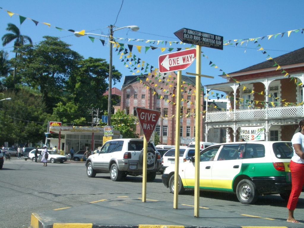 Town of Port Antonio, Portland, Jamaica.